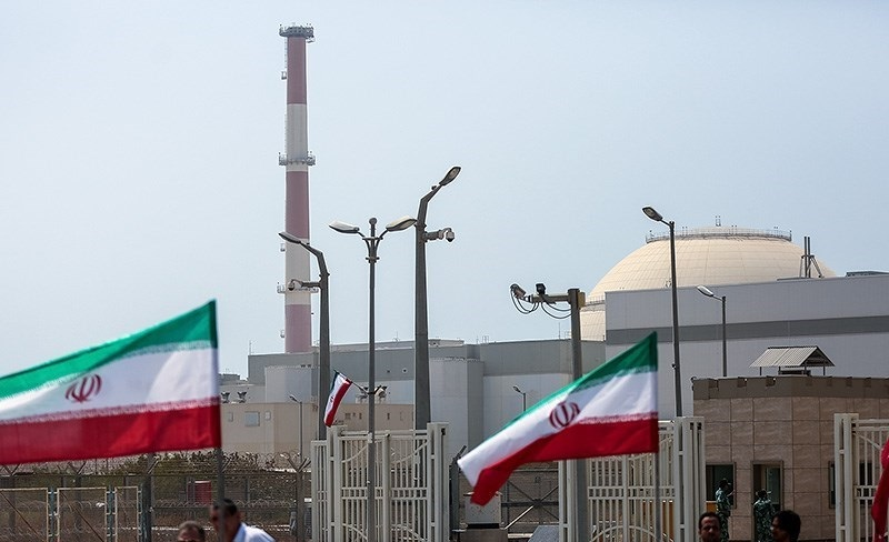 Iranian First Vice President Eshaq Jahangiri coming in Bushehr to broke ground the second phase of Bushehr Nuclear Power Plant